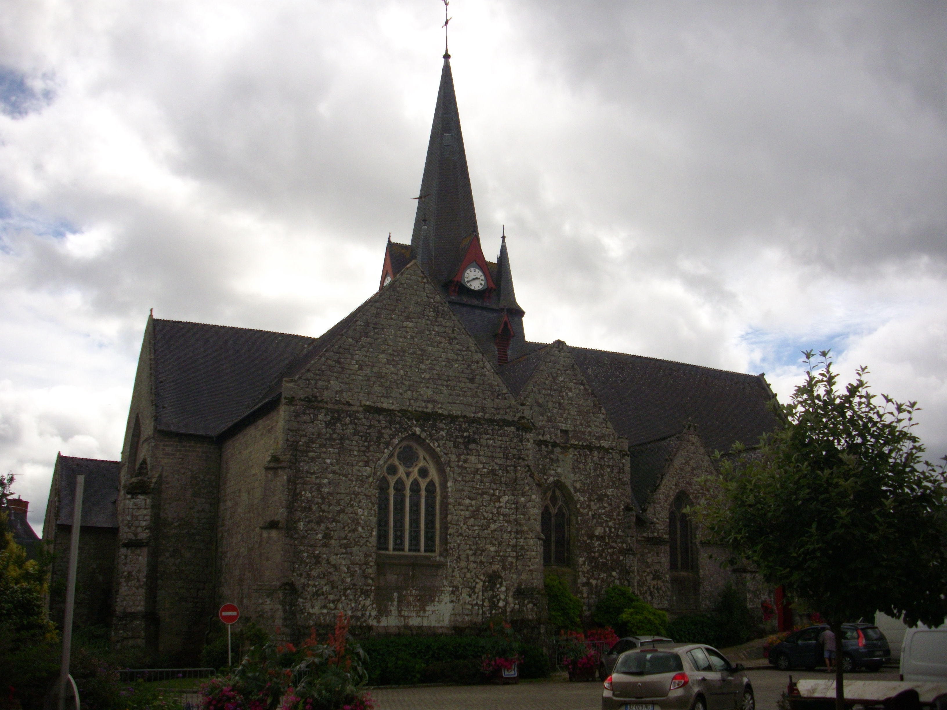 Saint Peter church of Sérent (Morbihan, France) .